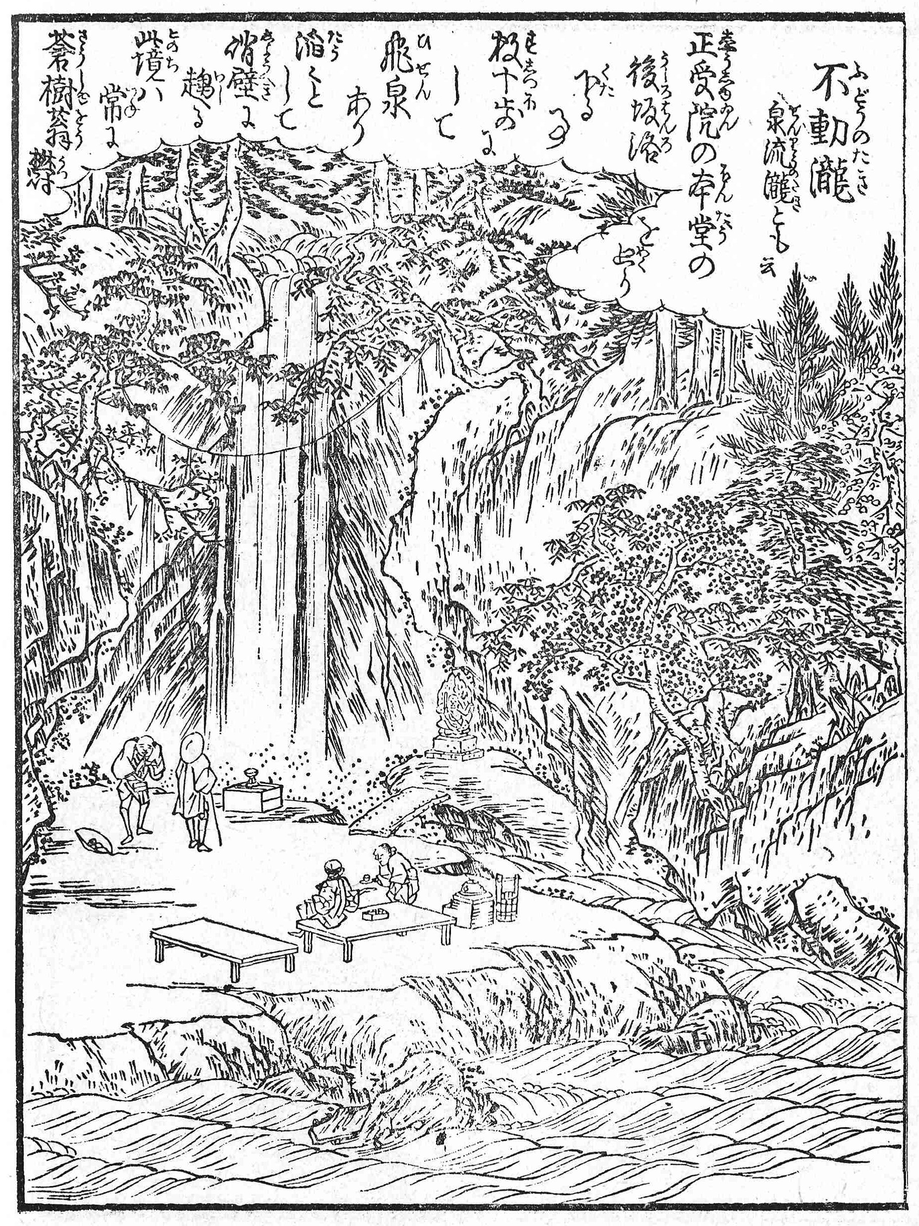 Fudō waterfalls at Shōju-in temple, Ōji (right) in Edo Meisho Zue vol. 5 (book 15)